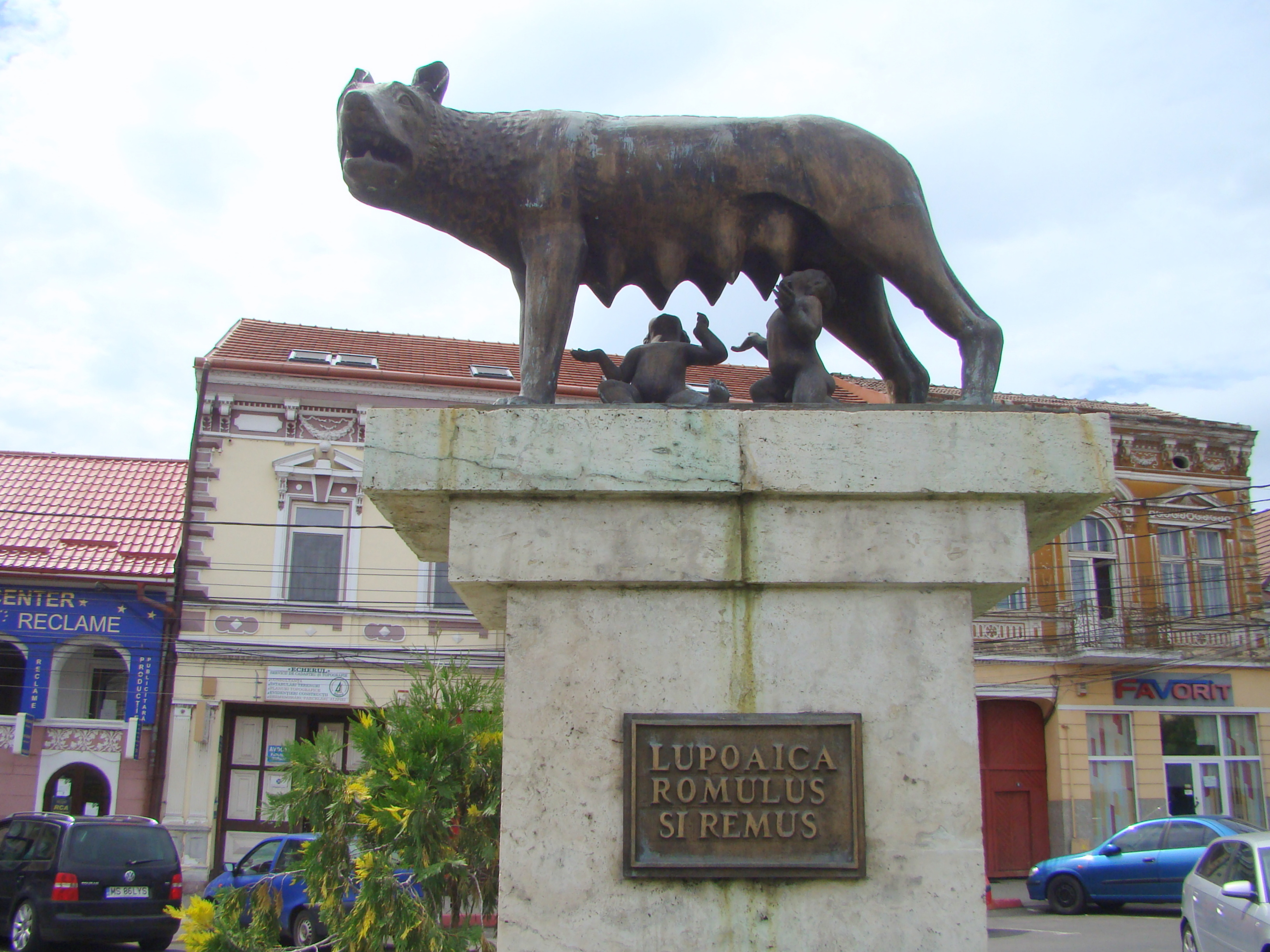 Statue, replica of Lupa Capitolina, located in Reghin